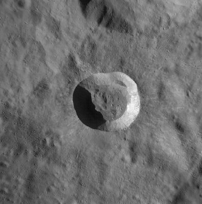 LROC WAC image (No. M119184820ME).